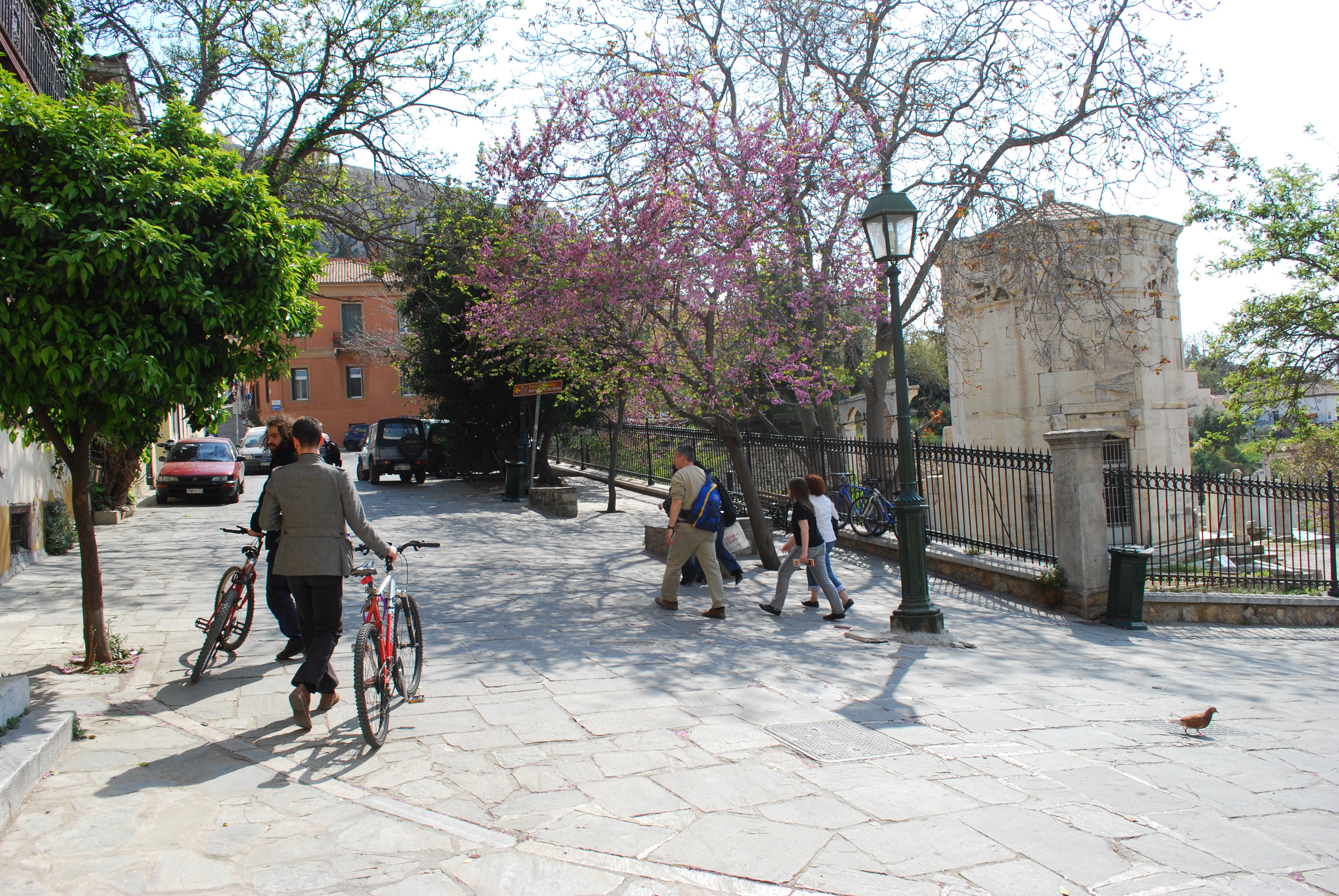 Plaka (Athens), near Pirgos ton Anemon.